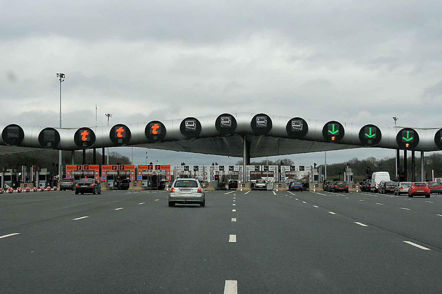 Toll plaza Cofiroute